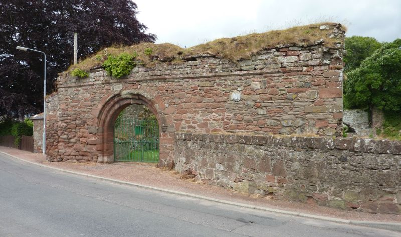 Lindores Abbey, near Newburgh, Fife, Scotland